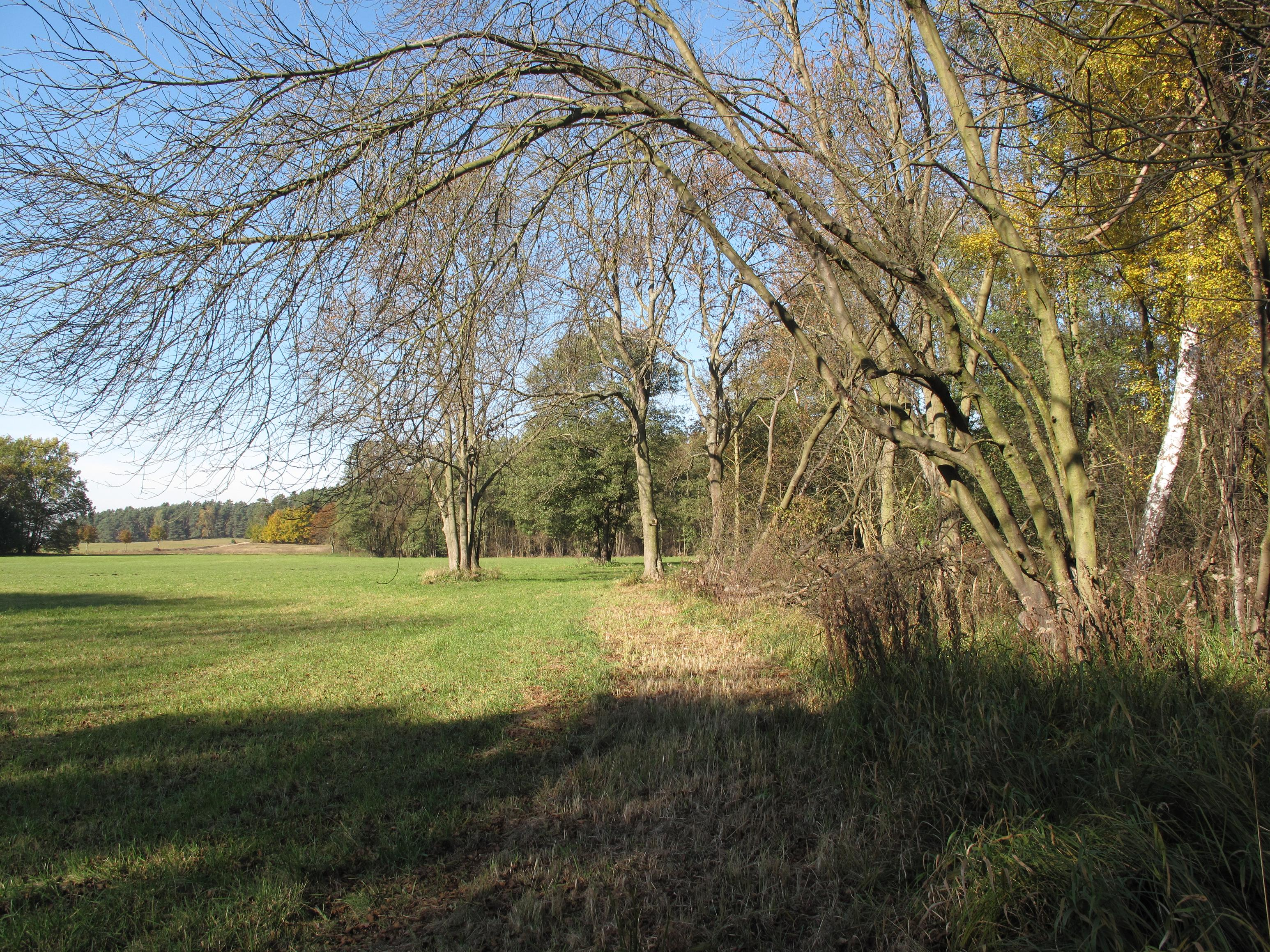 Shore and wet meadow at the Katzwinkel. The Katzwinkel is a lake in Stücken, a part of the municipality Michendorf in the district Potsdam-Mittelmark, state Brandenburg, Germany. The lake covers 0,09 km² and is situated in the Nuthe-Nieplitz Nature Park. The moor-lake was formed in the 1980s by peat-draining.